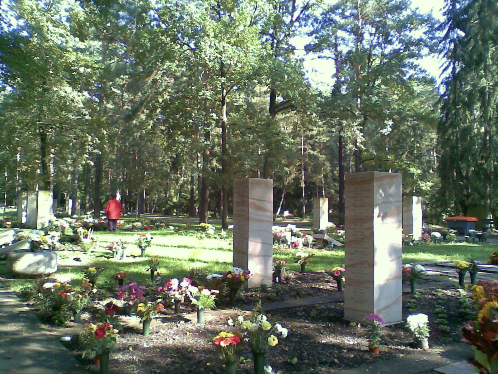 The forest cemetery in Dresden -saxonia- have a tomb group, where the dead persons bury semianonymous.